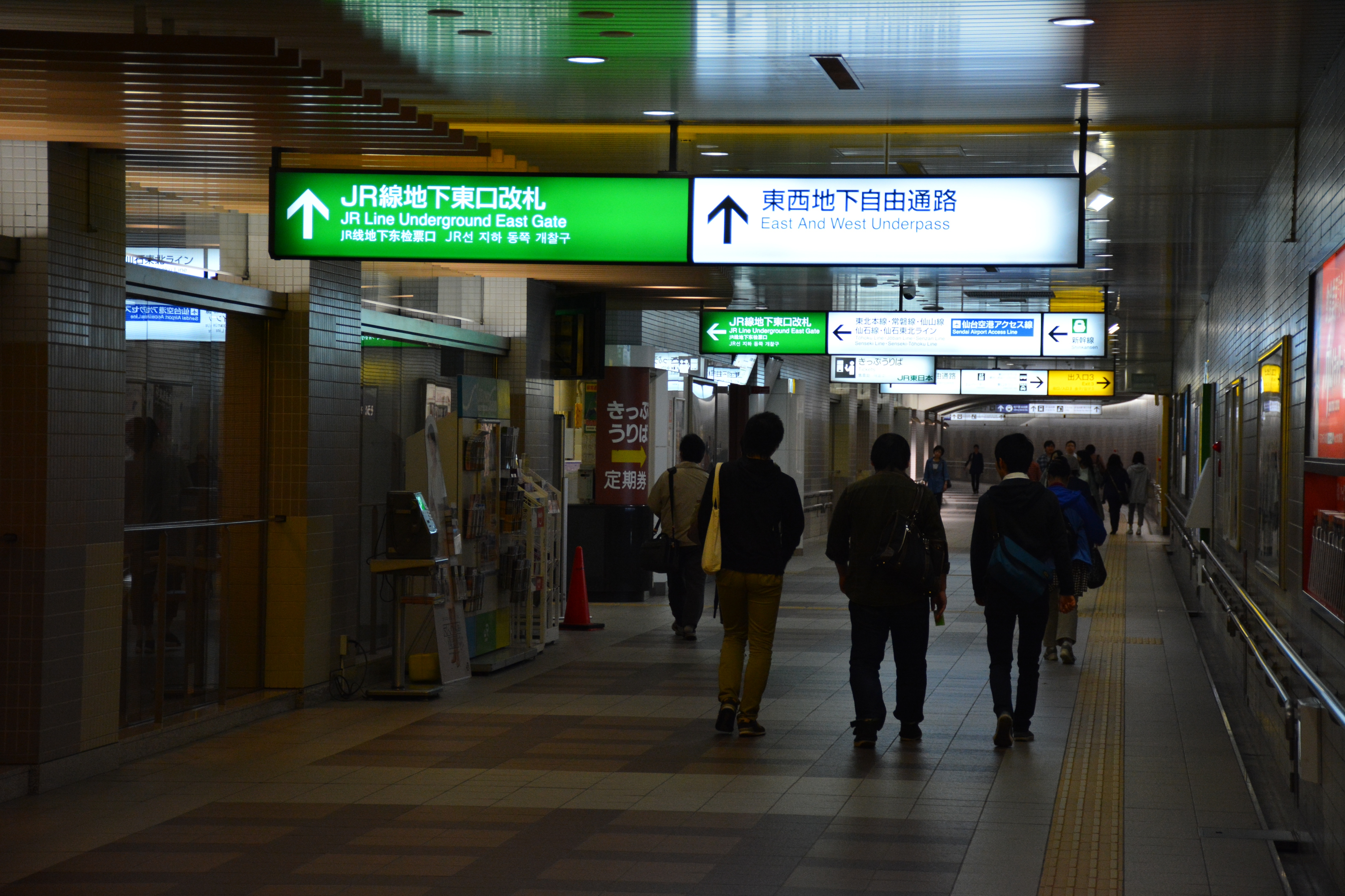 Sendai Station, October 2016